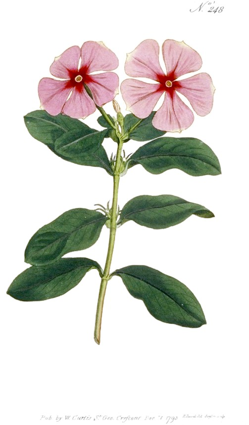 Madagascar Periwinkle or Vinca (Catharanthus roseus) from William Curtis' Botanical Magazine, ca. 1787-1807. Image from the National Agricultural Library, ARS, USDA